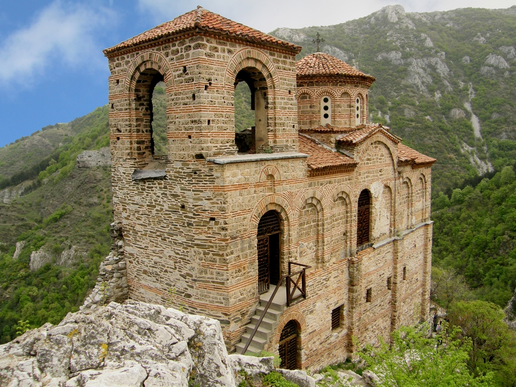 [The Lines of the Horizon Corrected] The Holy Theotokos of Petrich church inside the ruins of Asen's Krepost at Asenovgrad. The Holy Theotokos of Petrich...